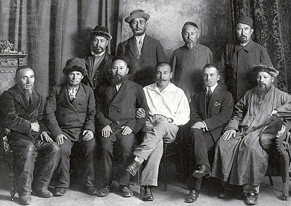 Members of Alash party in Semipalatinsk, 1918. On the down row: Zhakabay Atikeuly, Zhubandyk Bolganbayuly, Turagul Abayuly, Alikhan Bukeikhanov, Raiymzhan Marsekov. On the top row from the second: Mukan Zhakezhanuly and Kokbay Zhanataiuly.